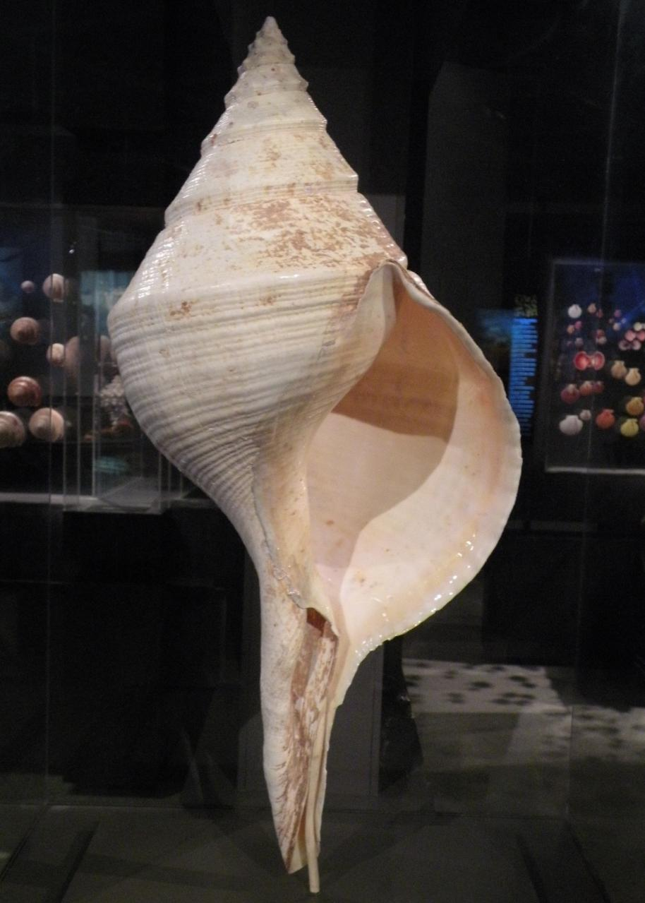 Apertural view of the shell of Syrinx aruanus.